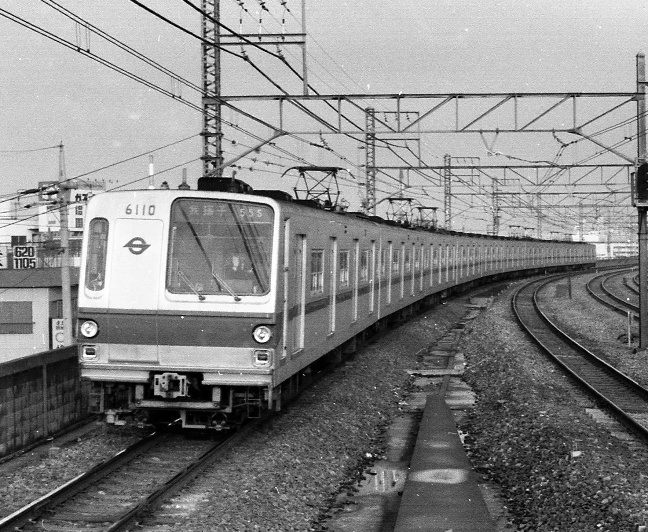 TRTA 6000 series EMU set 6110 at Kanamachi Station on the Joban Line